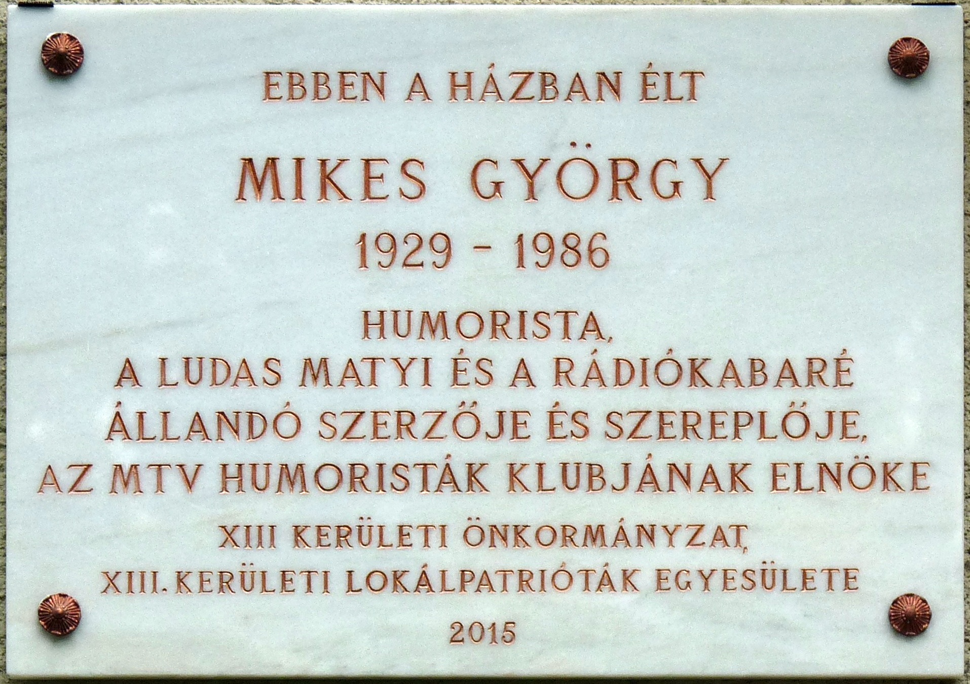 Commemorative plaque to Mr. György Mikes (1929-1986) Hungarian humorist and editor. It has been affixed on the wall of his former home and unveiled June 9, 2015. (No 52 Tahi Street, Budapest, District XIII)